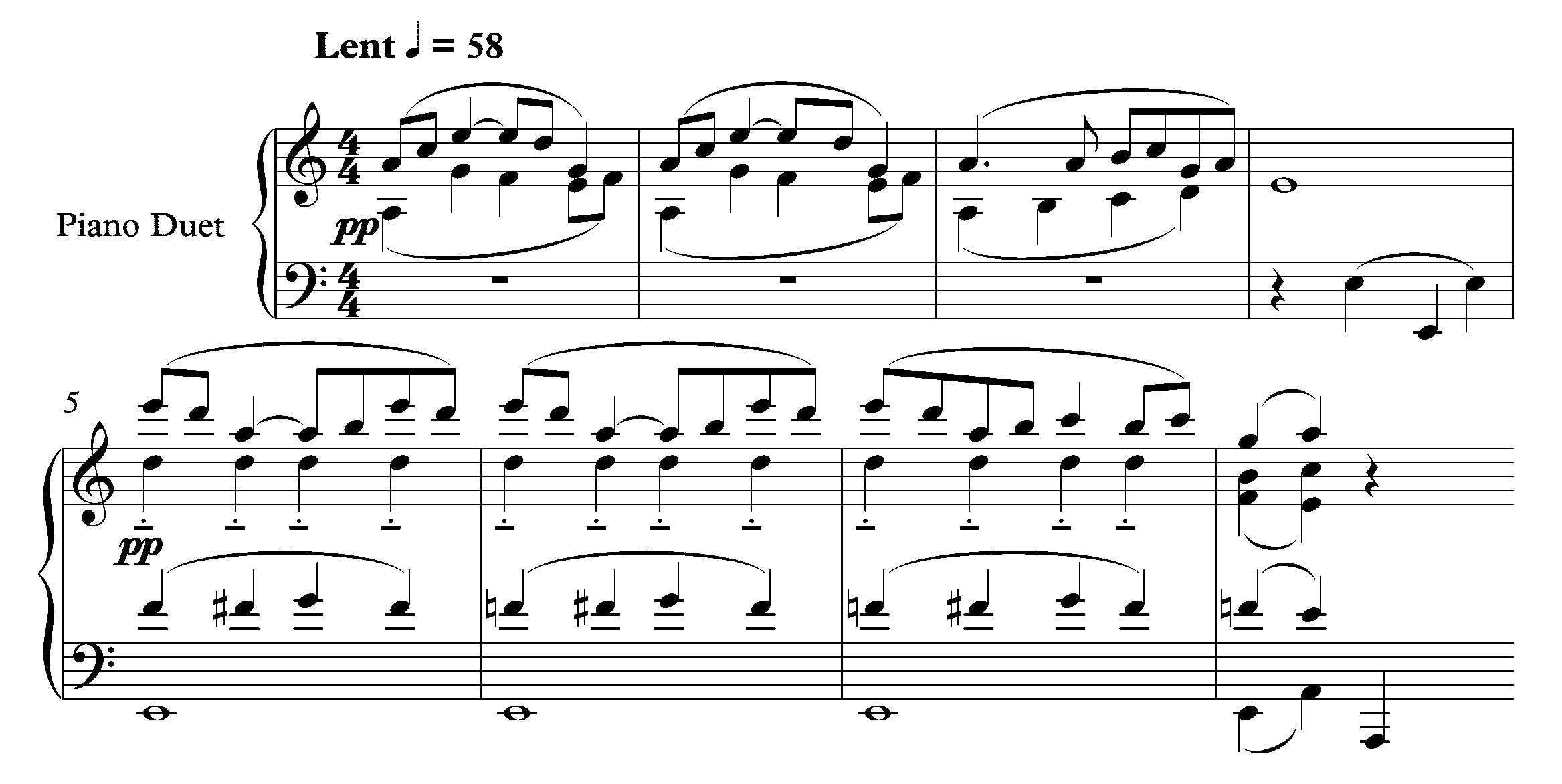 Pavane de la Belle au Bois Dormant from Ravel's Suite 'Ma Mere l'Oye, piano duet verios, bars 1-8